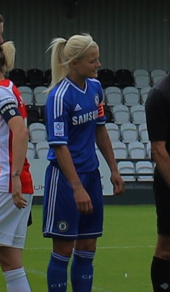 Katie Chapman before the Continental Cup game